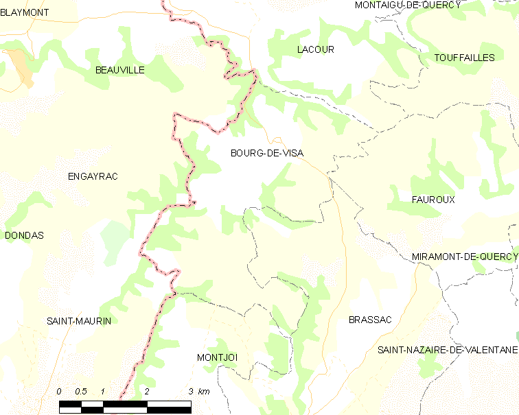 Map of French municipality Bourg-de-Visa